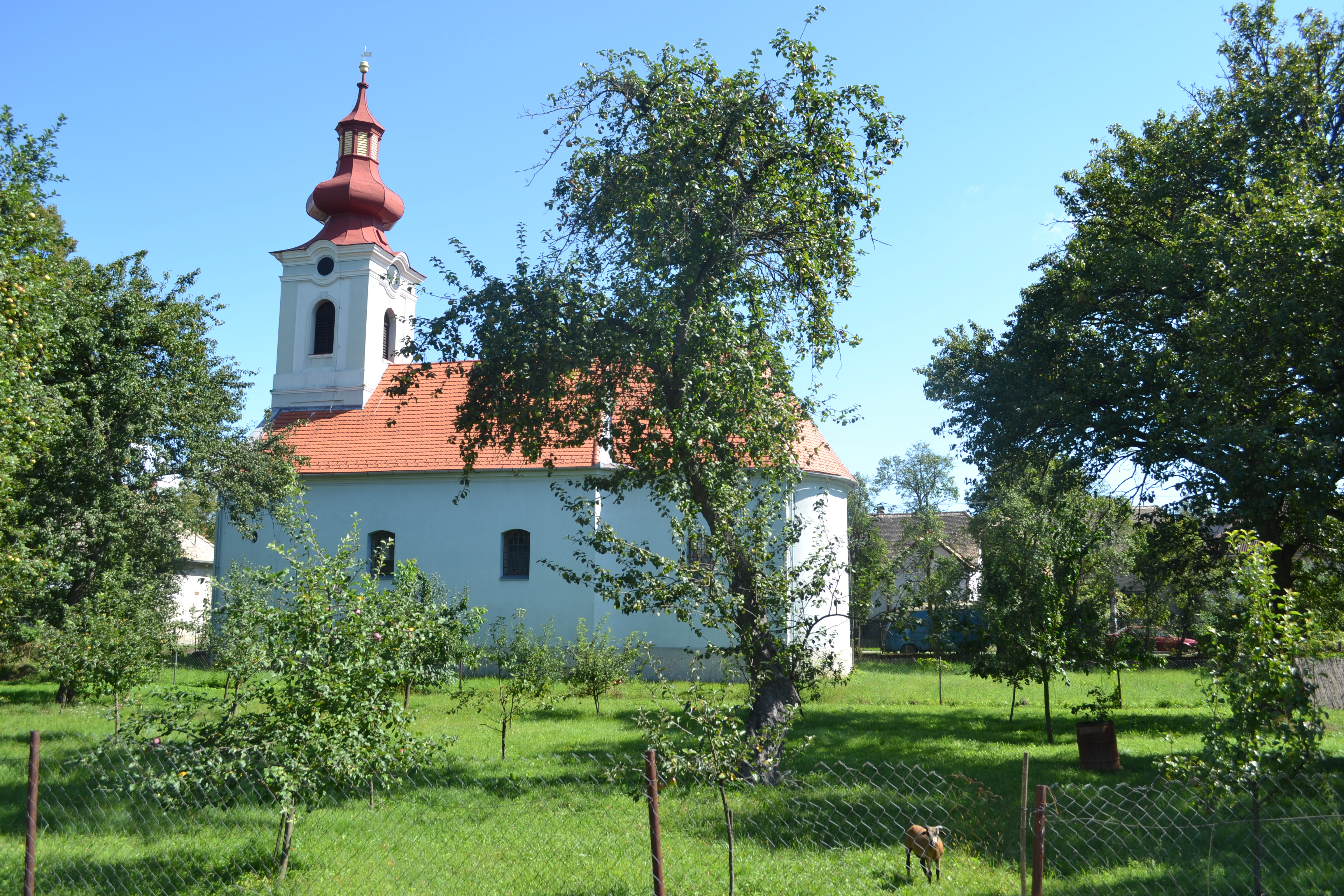 Lutheran church in the village Veľká VesSlovenčina: Evanjelický kostol v obci Veľká Ves Object location48° 22′ 53.94″ N, 19° 40′ 27.98″ E